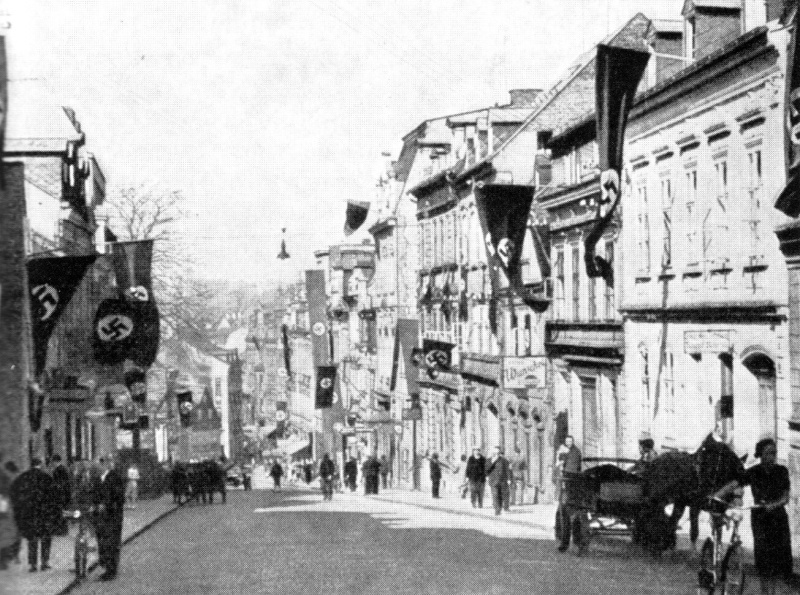 Sudeten German coup, in September 1938 (Hlavní ulice (Main street), buildings don't exist anymore)